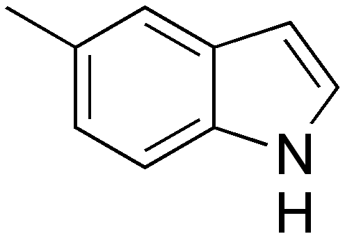 chemical structure of 5-methylindole